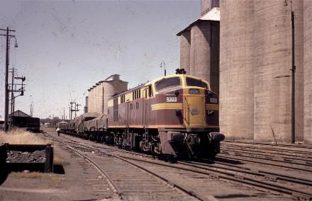 Locomotive 4303 passes the silos at Temora